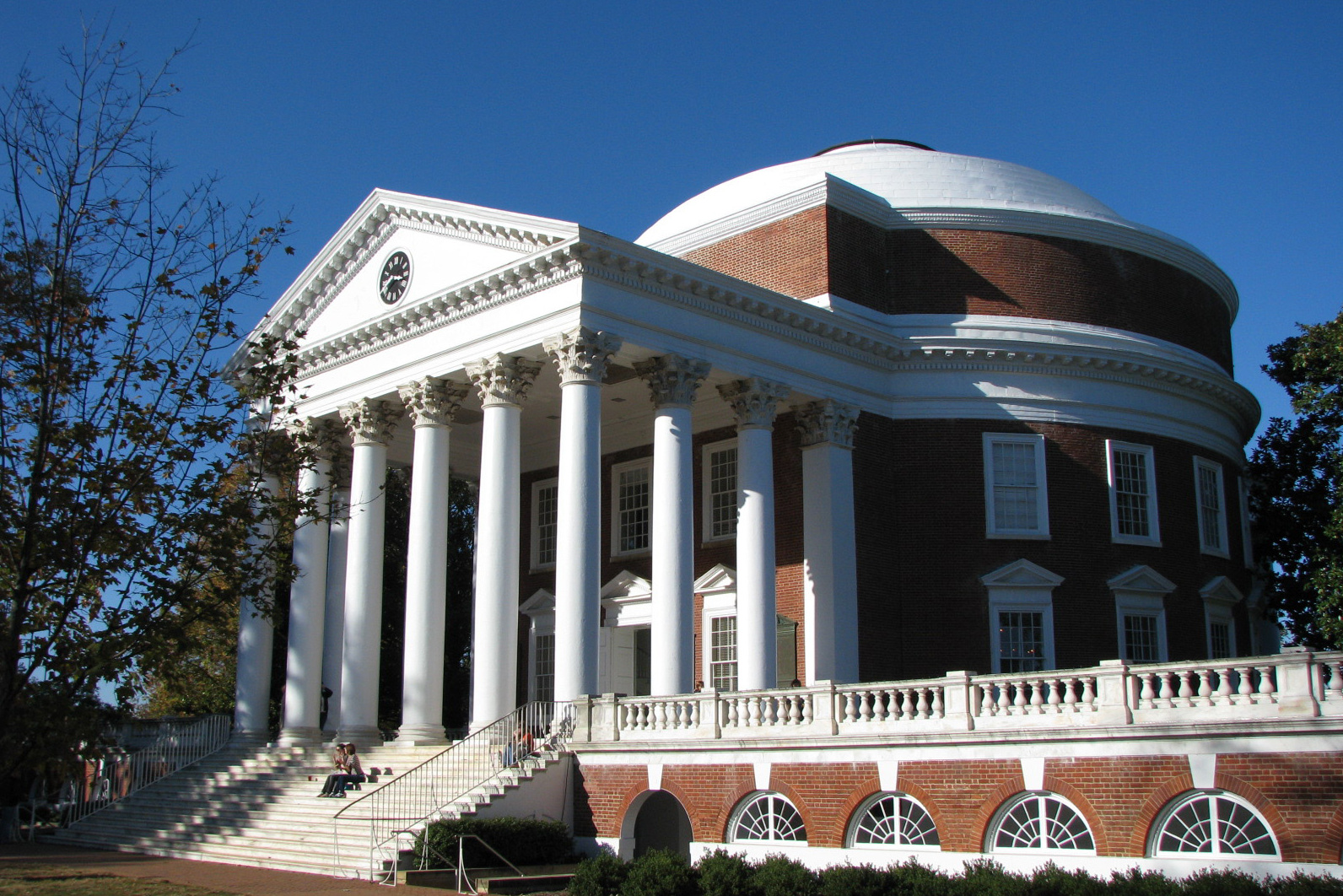 The Rotunda at the Lawn of the University of Virginia (UVa), view from the south east.